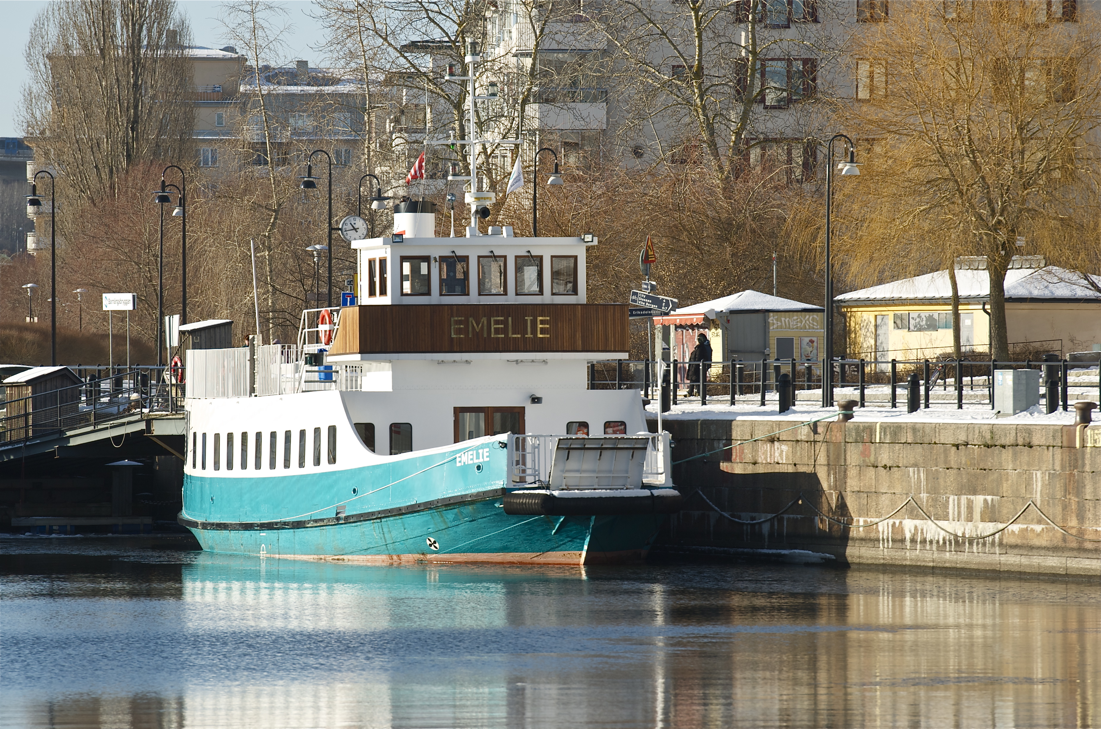 Emelie, February 2012.